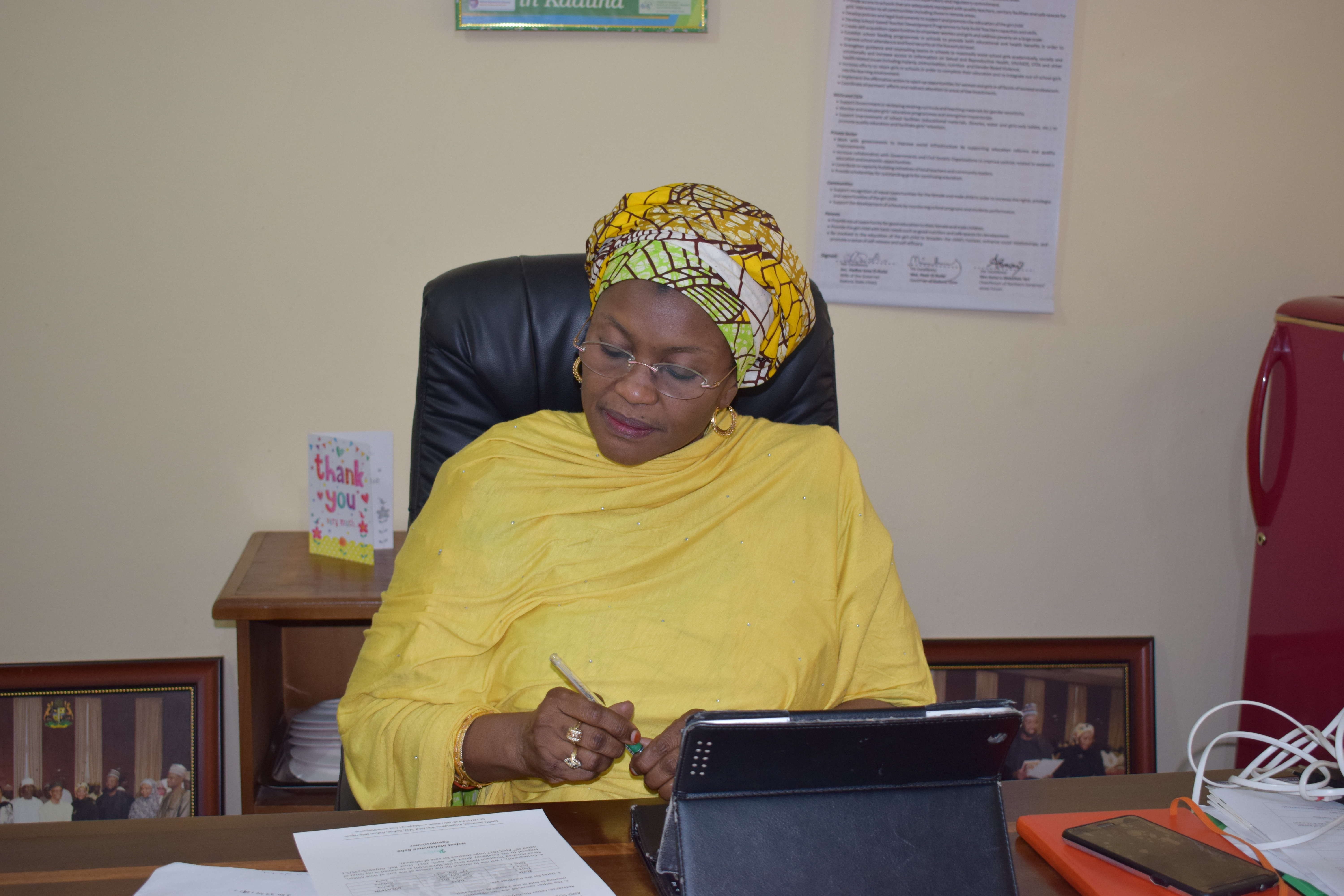 Hajiya Hafsat Mohammed Baba at her office in the Kaduna State Ministry of Women Affairs and Social Development